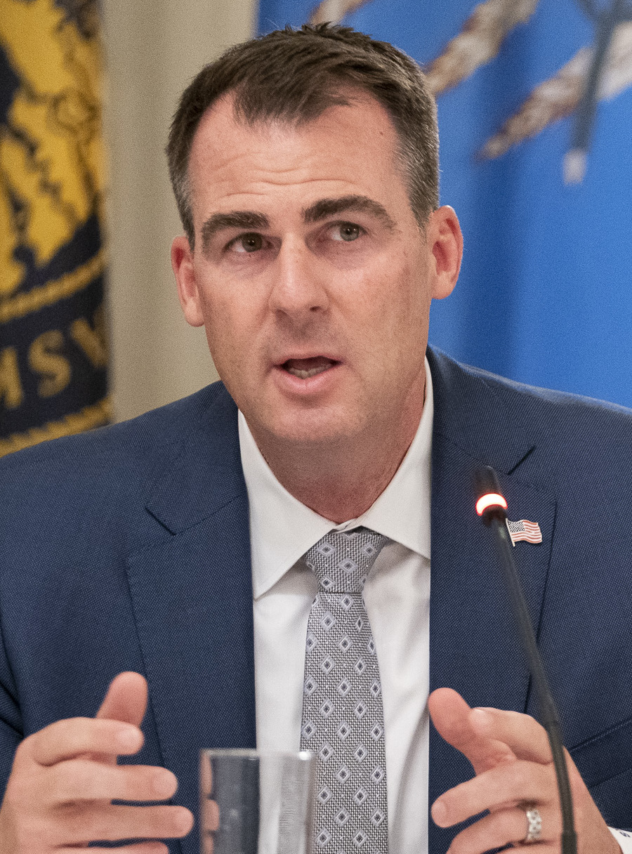 Oklahoma Governor Kevin Stitt address his remarks during a roundtable discussion with Governors and small business owners on the reopening of America’s small businesses Thursday, June 18, 2020, in the State Dining Room of the White House. (Official White House Photo by Shealah Craighead)